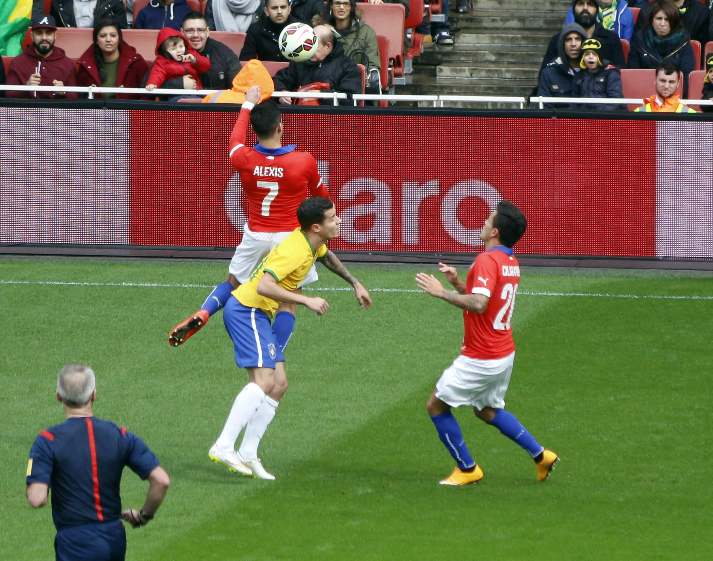 Philippe Coutinho Alexis Sánchez Charles Aránguiz Brazil vs Chile, International Friendly, 29th March, 2015, Emirates Stadium, London